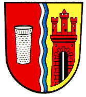 Coat of Arms of Kleinkahl